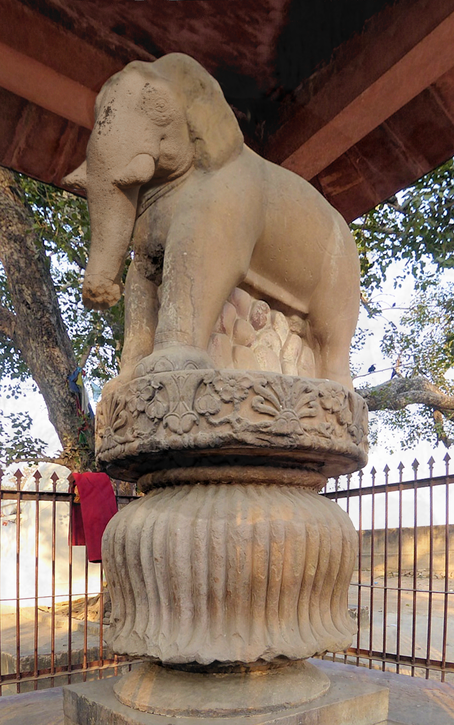 Sankissa elephant, simulation of what the original sculpture may have looked like.